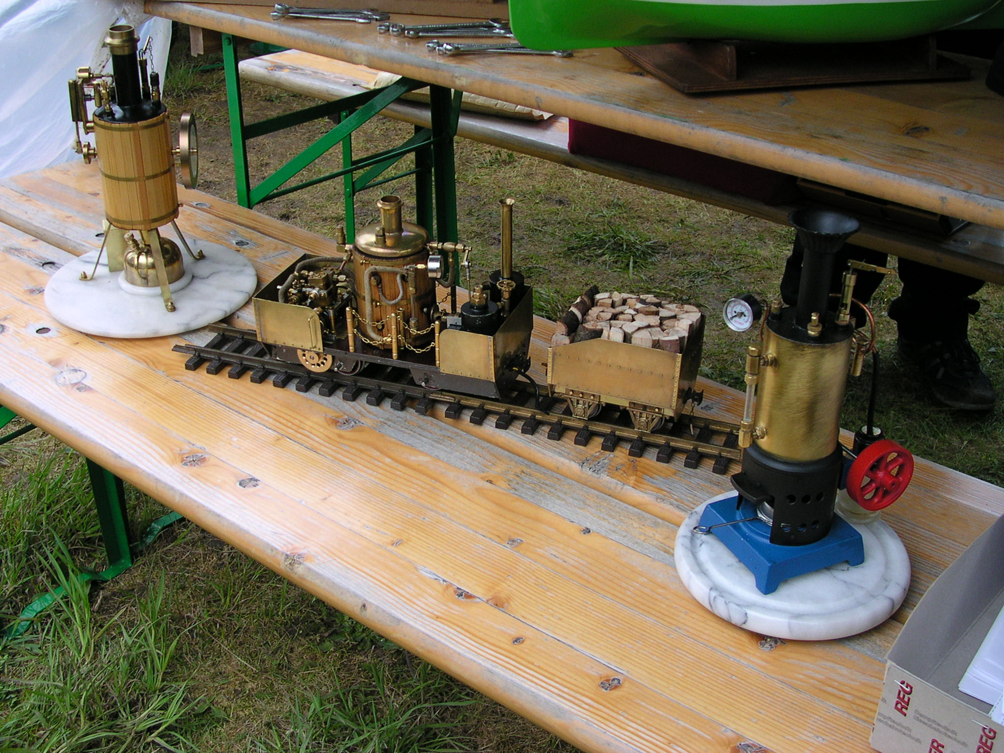 5th steam festival in Bochum, Germany 2007, steam ship model